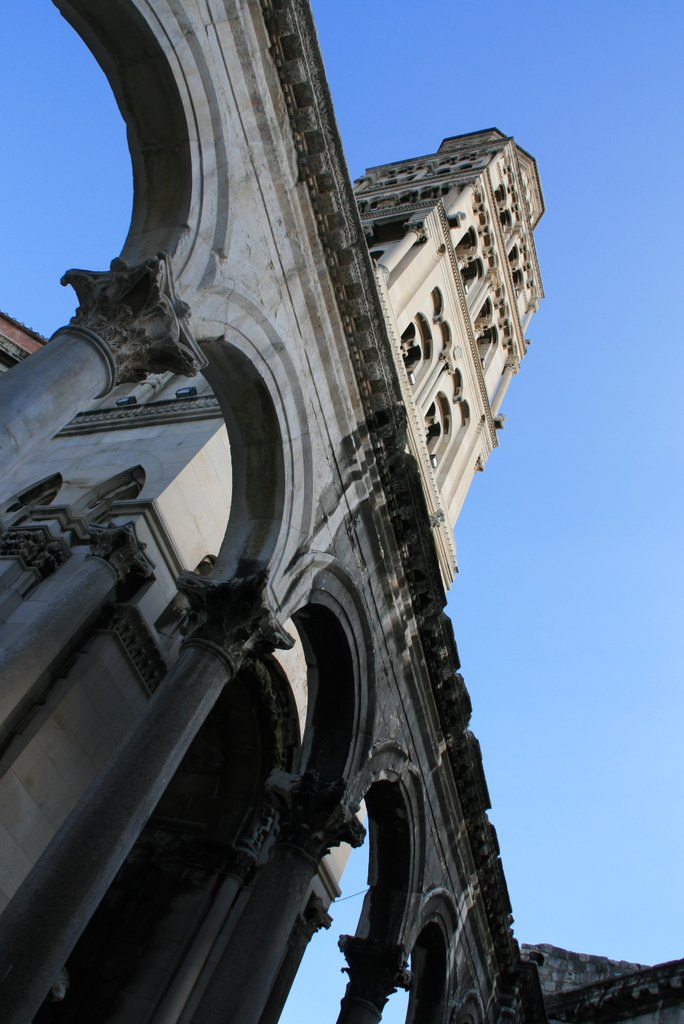 the famous Cathedral of Split.